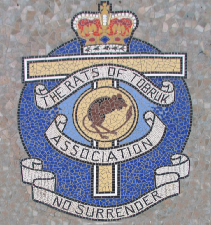 Mosaic at the base of the Rats of Tobruk Memorial, Queen's Park, Mackay, Australia.